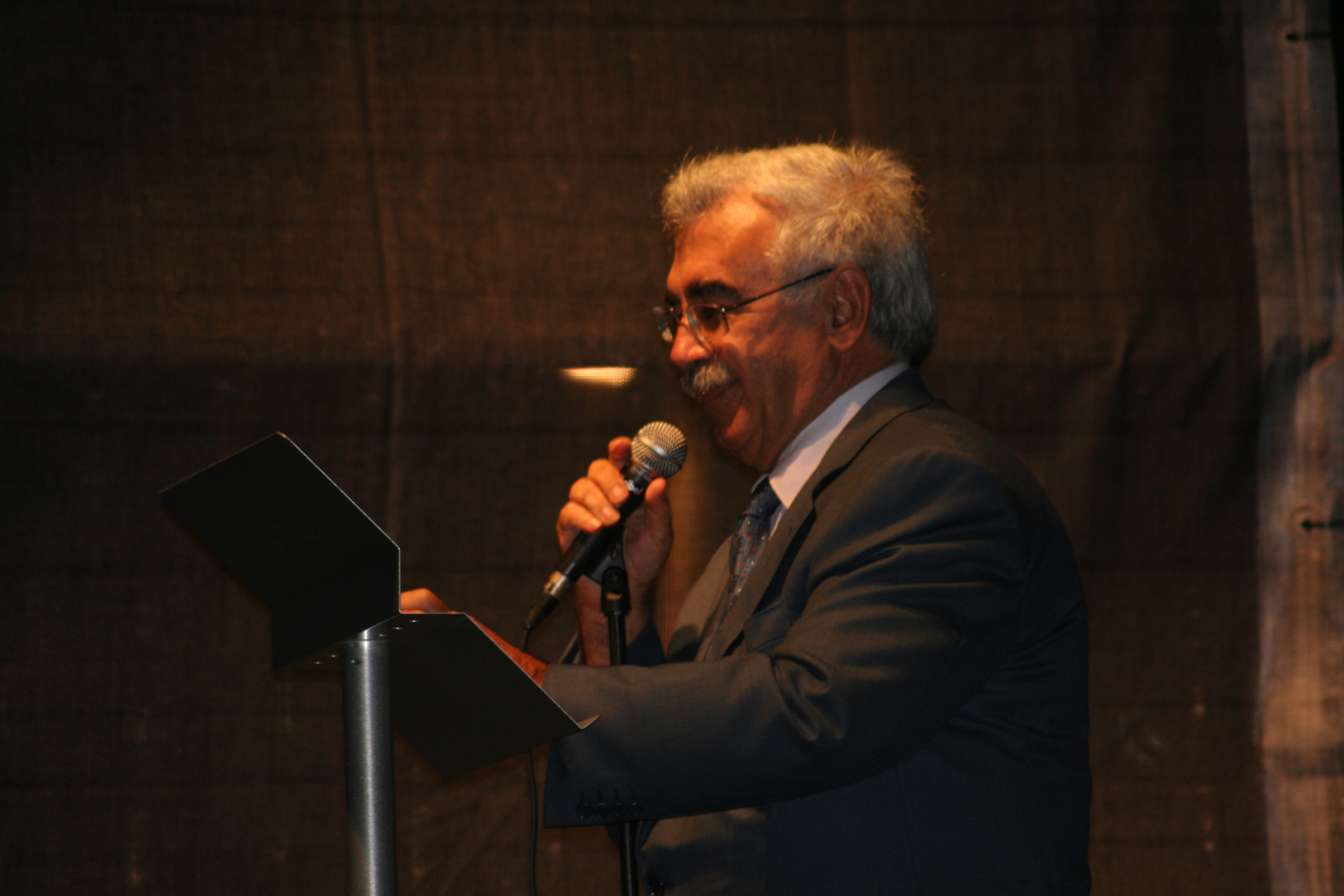 The Mayor of Sines opens the FMM 2007